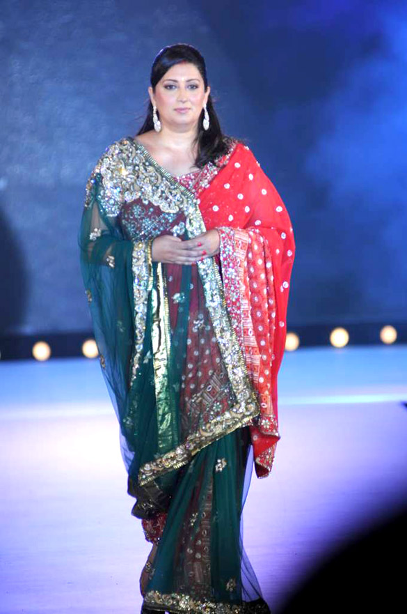 Smriti Irani walks for Manish Malhotra & Shaina NC's show for CPAA